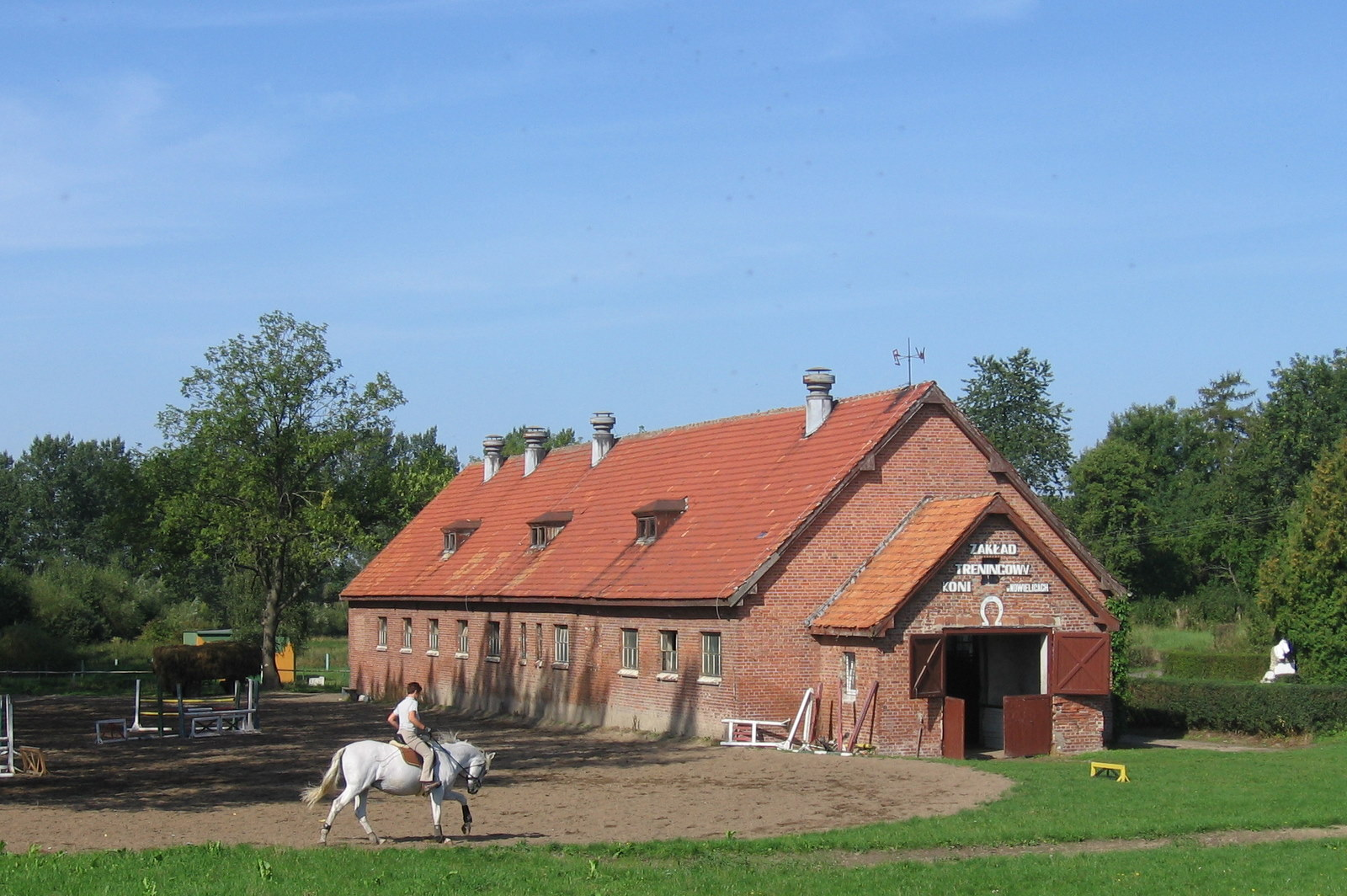 Paddock of Stud farm in Nowielice, Poland